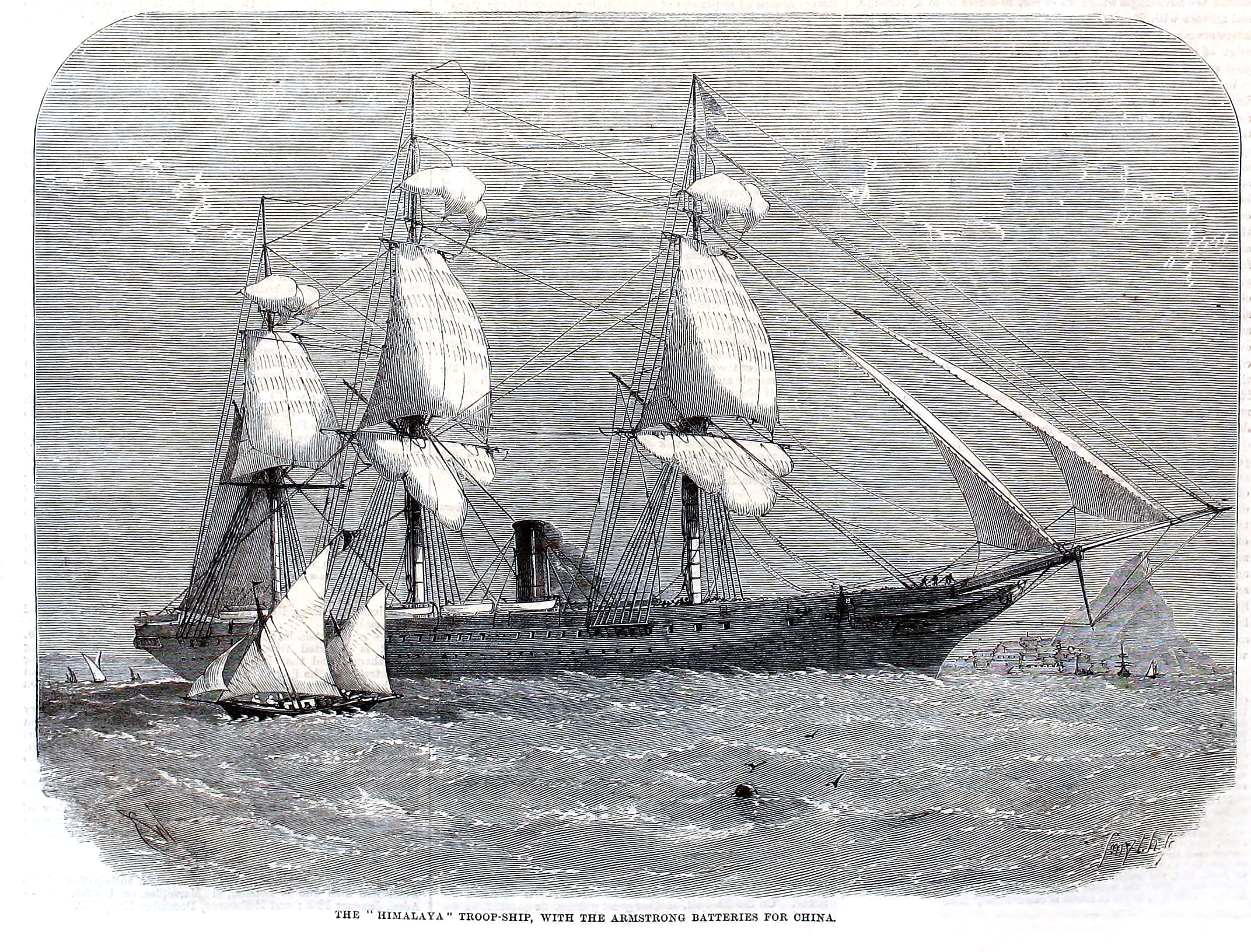 UK troop ship HMS Himalaya, built in 1853